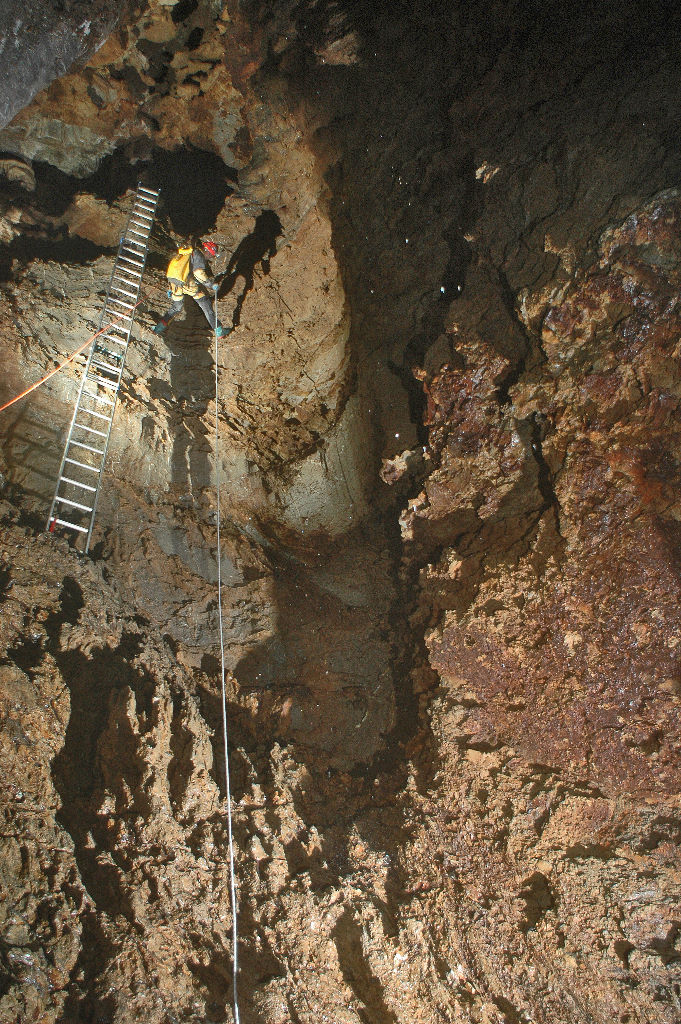 A vertical drop in Riverbend Cave is negotiated with a ladder and a handline.